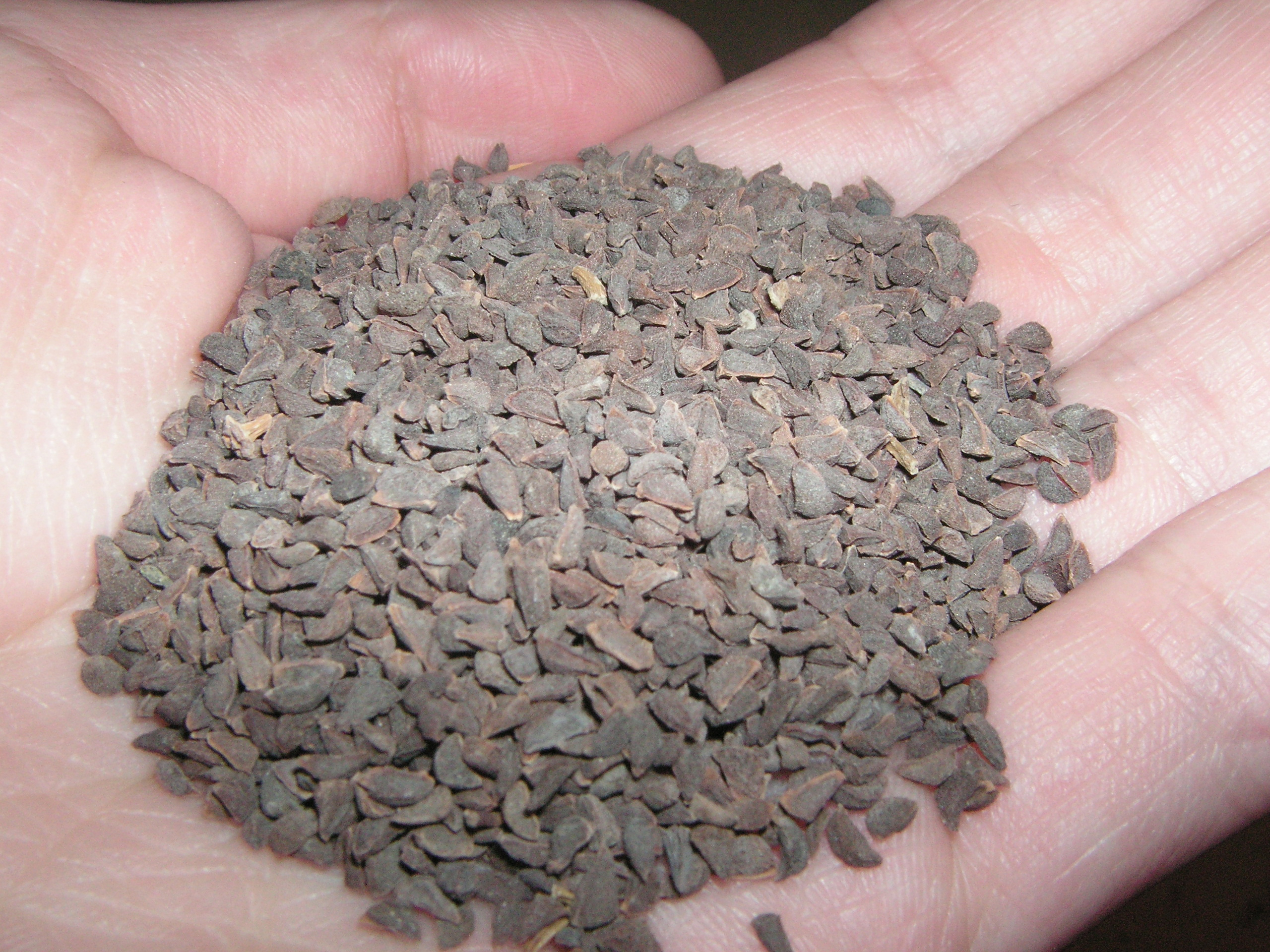 Handful of viable Syrian Rue seeds.